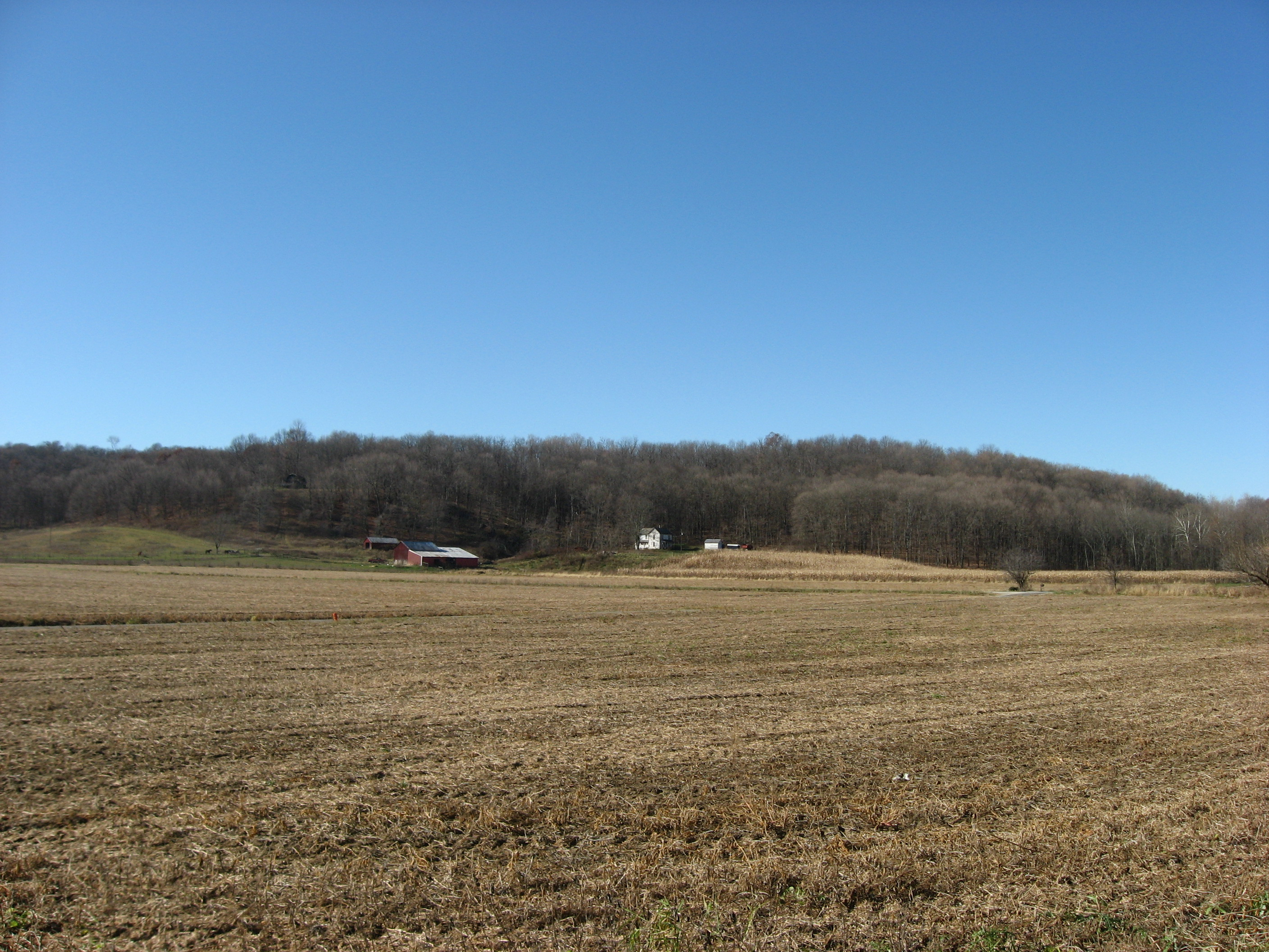 A ridge in central Hopewell Township, Perry County, Ohio, United States, southeast of the village of Glenford. Atop this ridge is located the Glenford Fort, a Native American hill fort and archaeological site; it is listed on the National Register of Historic Places. Photo taken from Township Road 19 by the Jonathan's Creek bridge, to the northeast of the ridge.